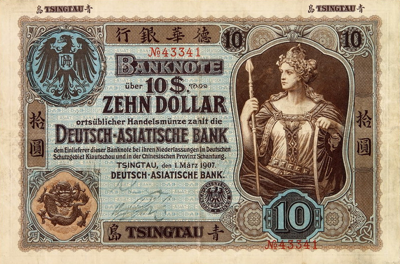 A banknote issued by the Deutsch-Asiatische Bank denominated in "Dollars".